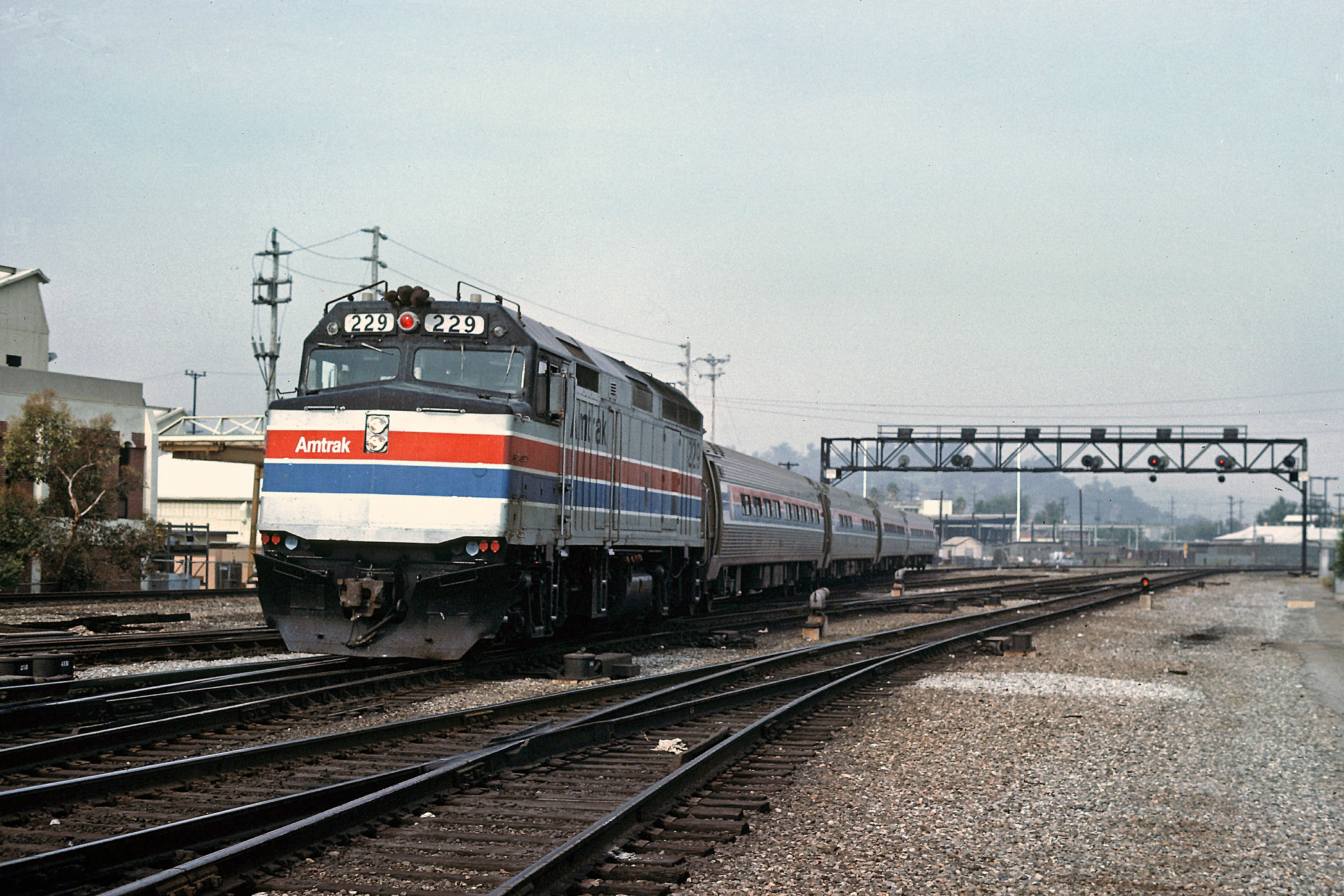 Amtrak EMD F40PH #229 with a section of the San Diegan at Los Angeles Union Passenger Terminal November 1978.